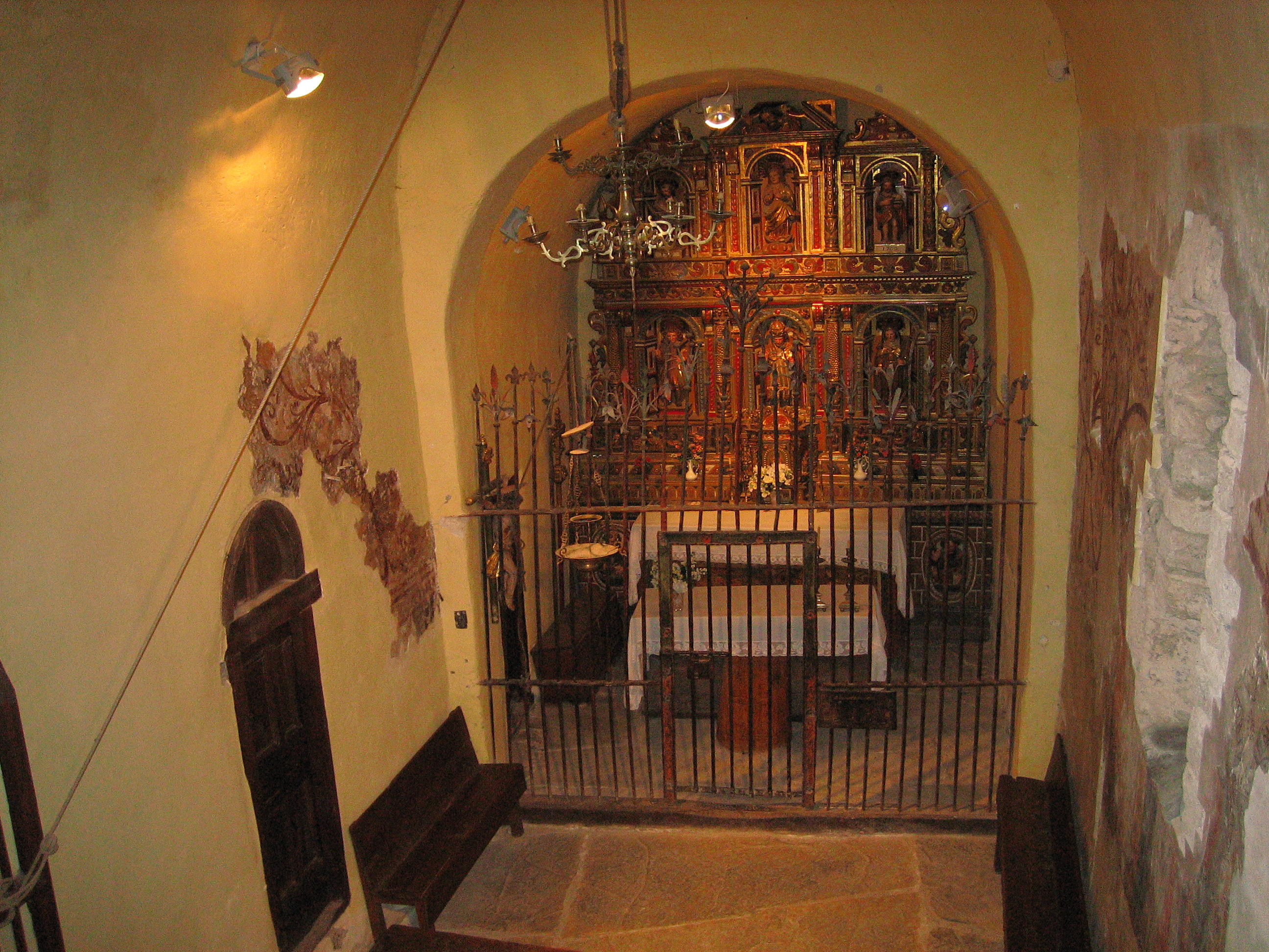 Interior of the Saint Clement's Church in Pal, La Massana, Andorra